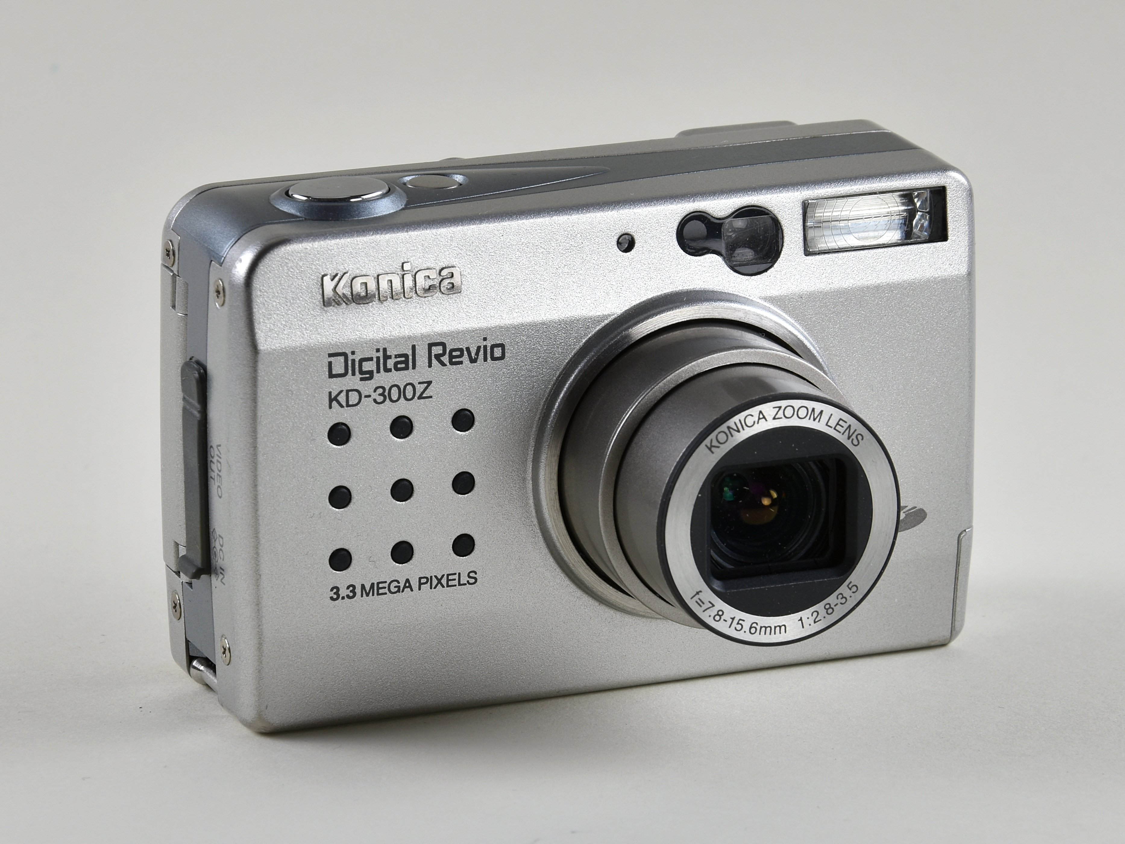 Konica Digital Revio KD-300Z, a compact digital camera introduced by Konica in 2001, shown here in the “switched-on” state with the lens extended and the lens cover open. Though actually the camera was not powered when this picture was taken—it had no battery life left and the power supply was removed without switching it off properly.